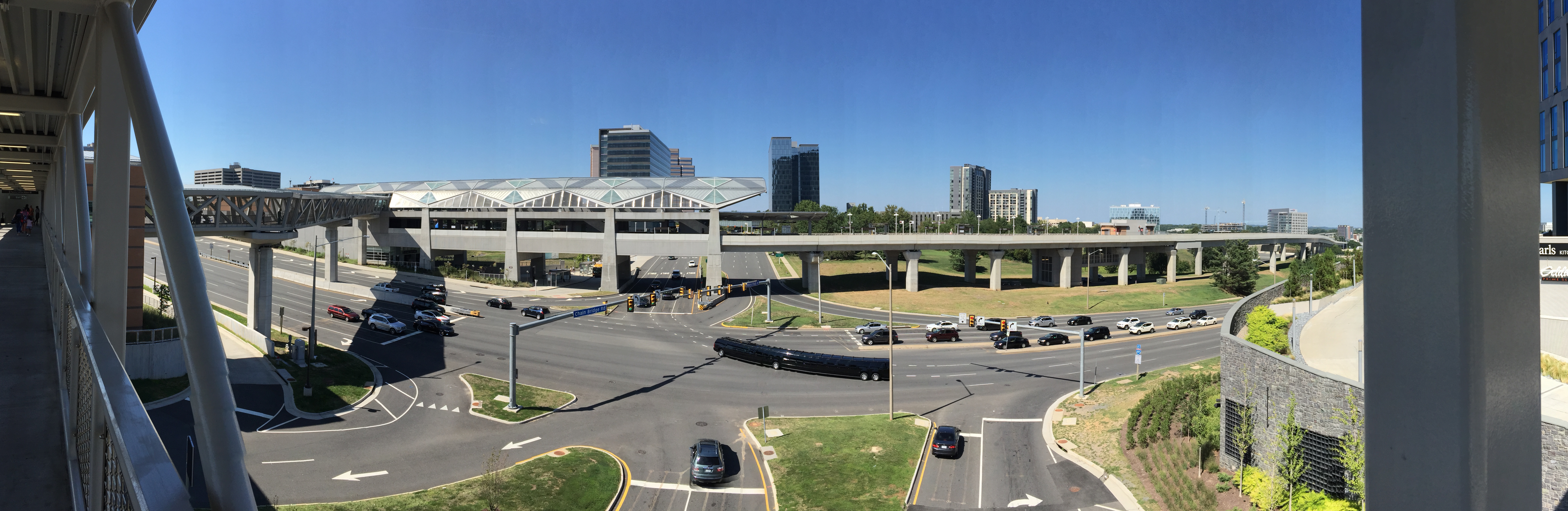 Exterior of the of the Tysons Corner WMATA station in 2016